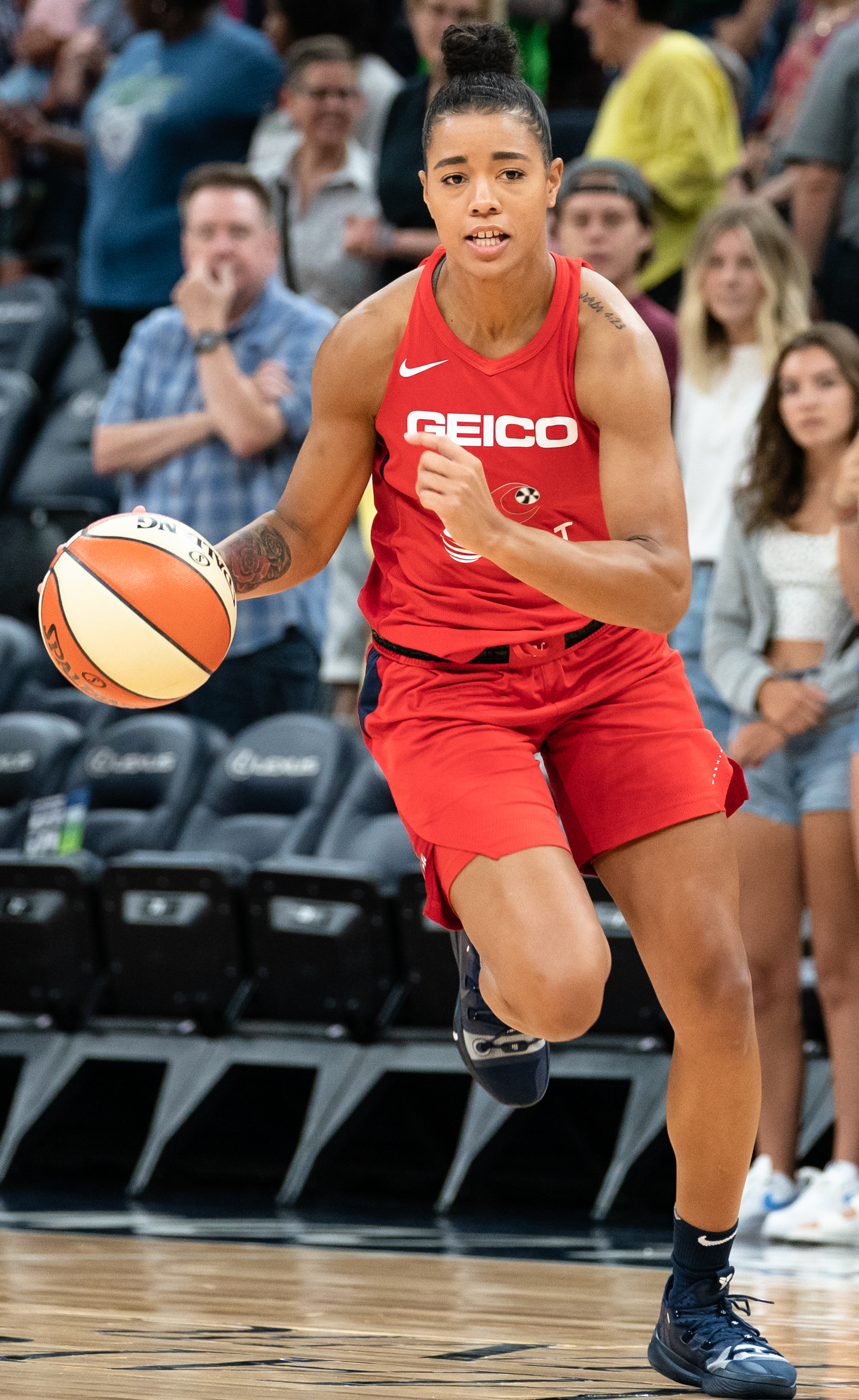 Minnesota Lynx vs Washington Mystics on July 24 2019 at Target Center in Minneapolis, Minnesota; the Mystics won the game 79-71.